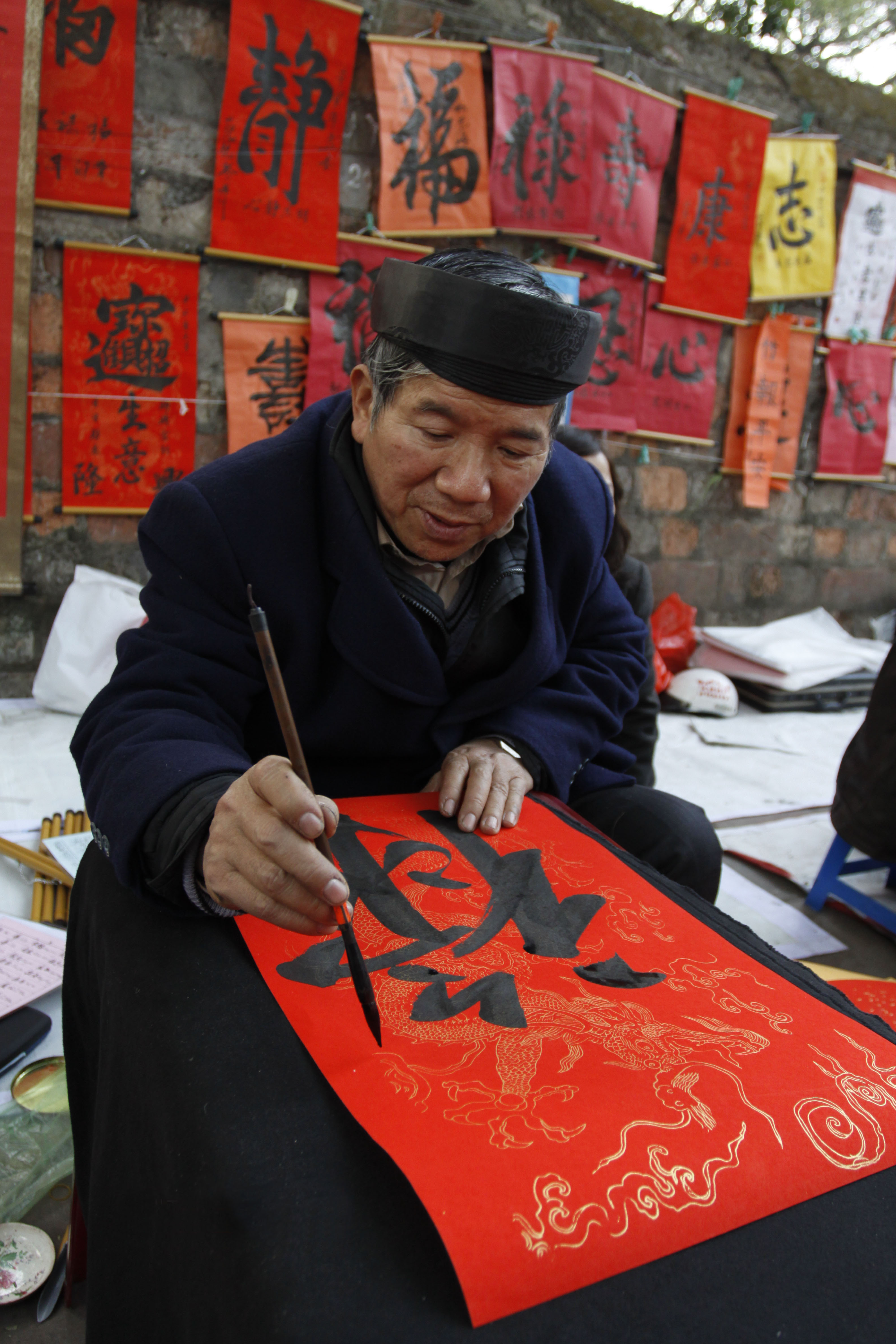 Hán tự calligraphy in January at the Temple of Literature, Hanoi. The writer is possibly writing 祿 (Vietnamese: lộc, Chinese lù) with the meaning “blessing, happiness, prosperity”, see also Fu Lu Shou.